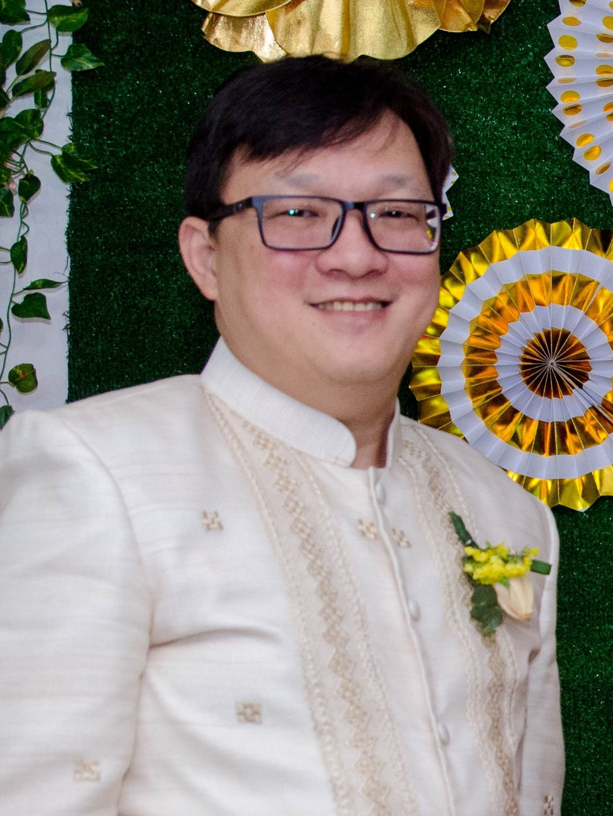 Joseph Mercado in 2019.